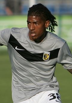 Patrick van Aanholt